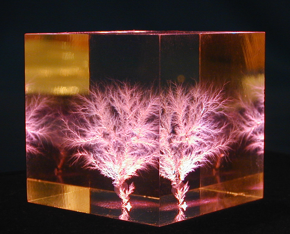 A 3D "Electrical Tree", or Lichtenberg figure inside a 1.5" cube of Polymethyl Methacrylate (PMMA). Created by Bert Hickman, Stoneridge Engineering, using a 3 MeV electron accelerator.